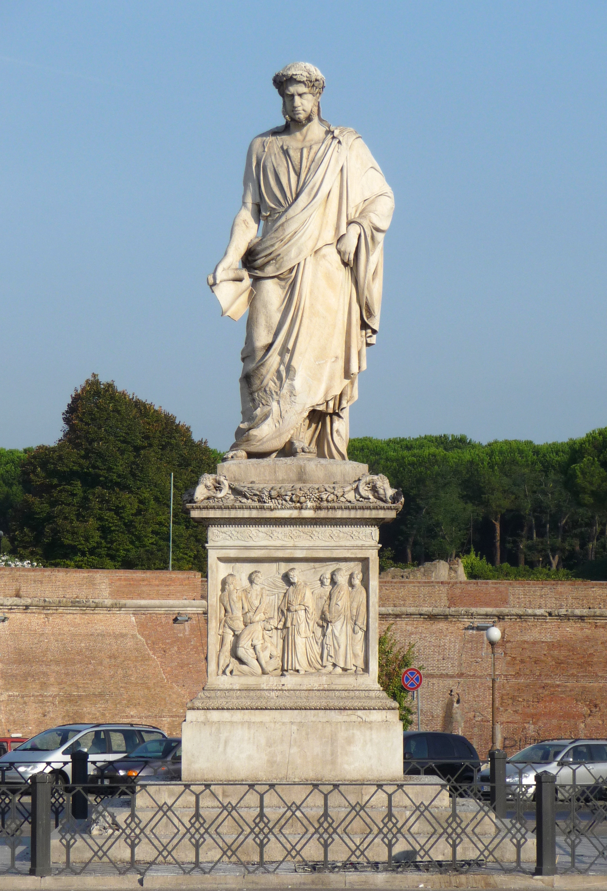 Monument for Leopoldo II, Piazza Repubblica, Livorno, Italy